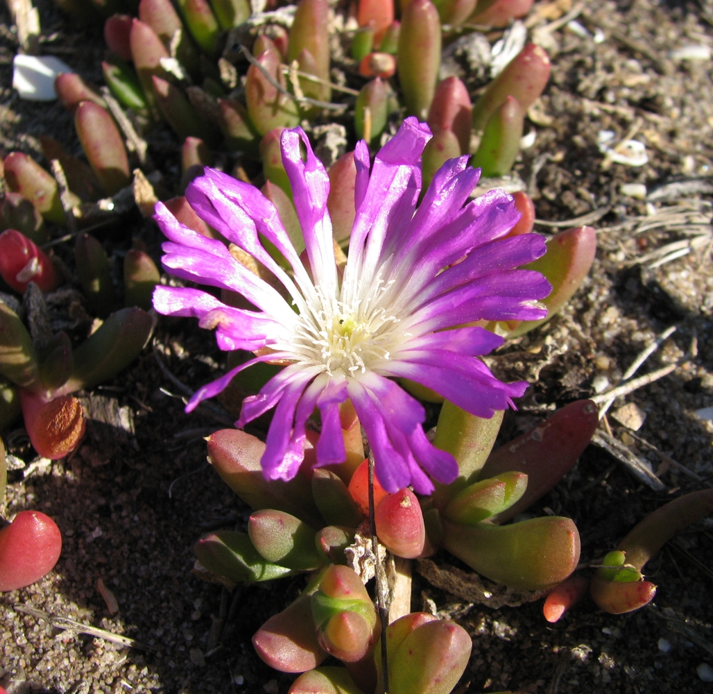 Disphyma crassifolium subsp. clavellatum, Cheetham Wetlands, Victoria, Australia